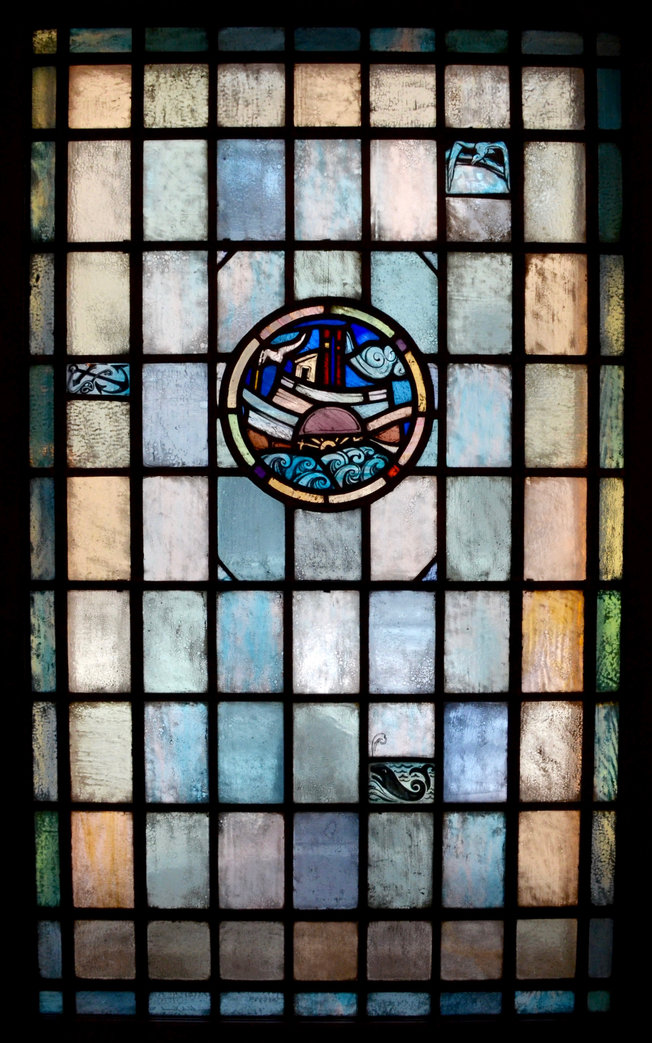 One of three large stained-glass windows in the board room of the United States National Bank Building, in Portland, Oregon. This one, the central window, features a sidewheel steamboat. Other subjects depicted, in smaller window sections, include an anchor, a whale, and a seagull (or other bird). The window was produced by Portland's Povey Brothers Studio.